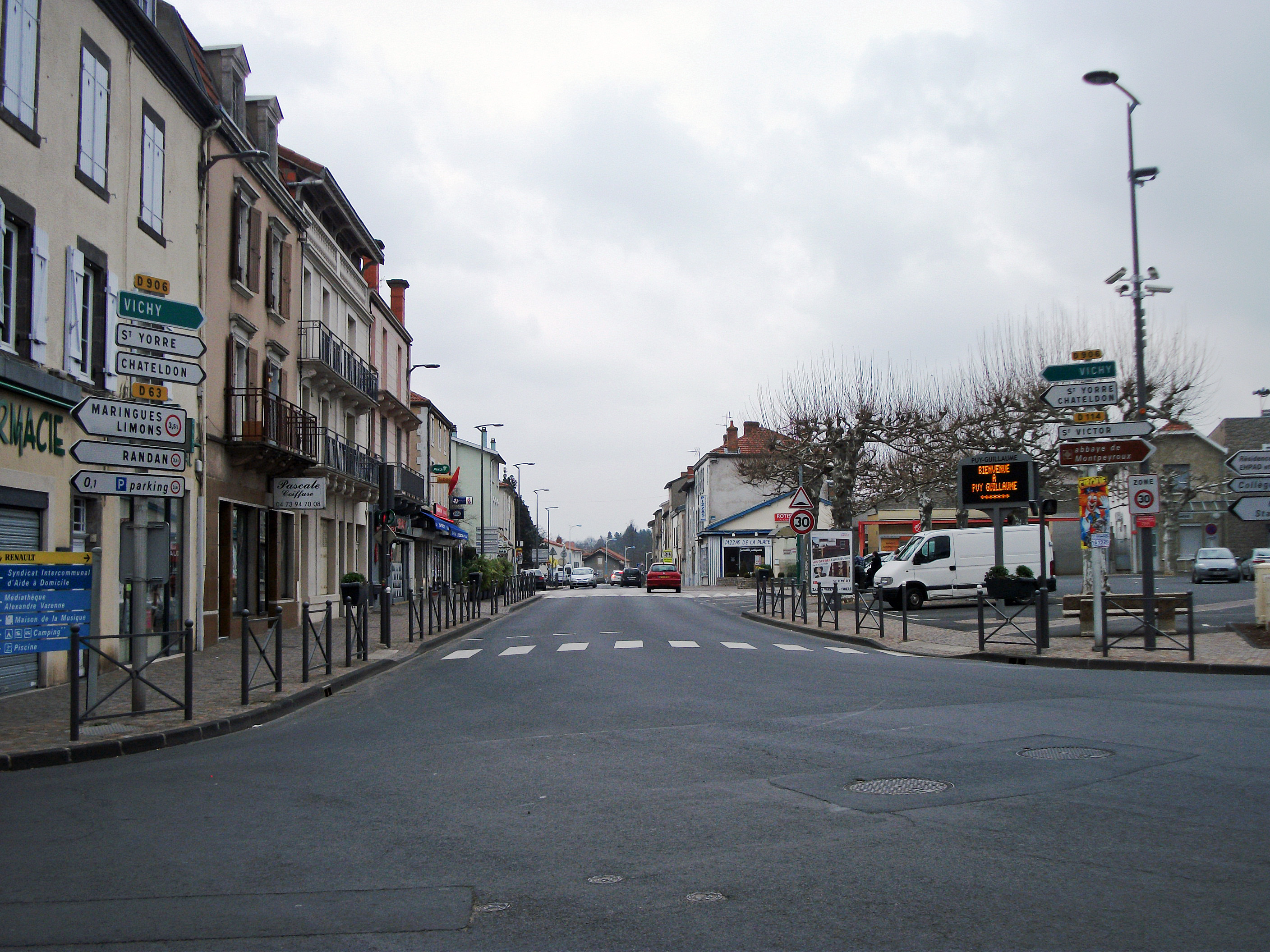 Departmental road 906 direction Vichy, Saint-Yorre and Châteldon (signs recently changed: 2014) in Puy-Guillaume, Puy-de-Dôme, France [10358]